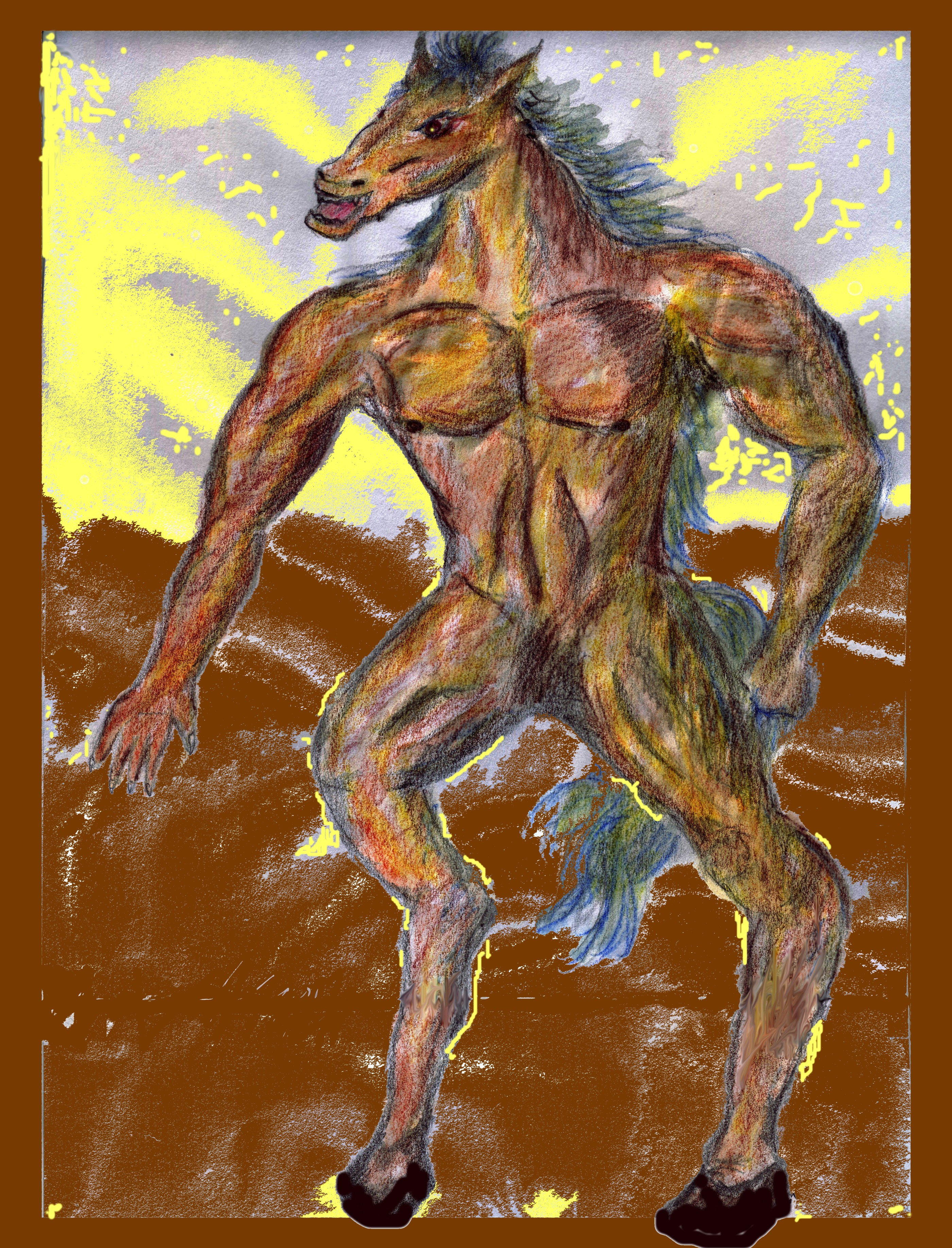 Illustration of the Tikbalang, Philippine folklore's demon horse. This illustration was created using mixed media: pencil, colored pencil, watercolor pencil. For this illustration the artist employed sketching, line-drawing and wash techniques. This illustration was electronically enhanced.